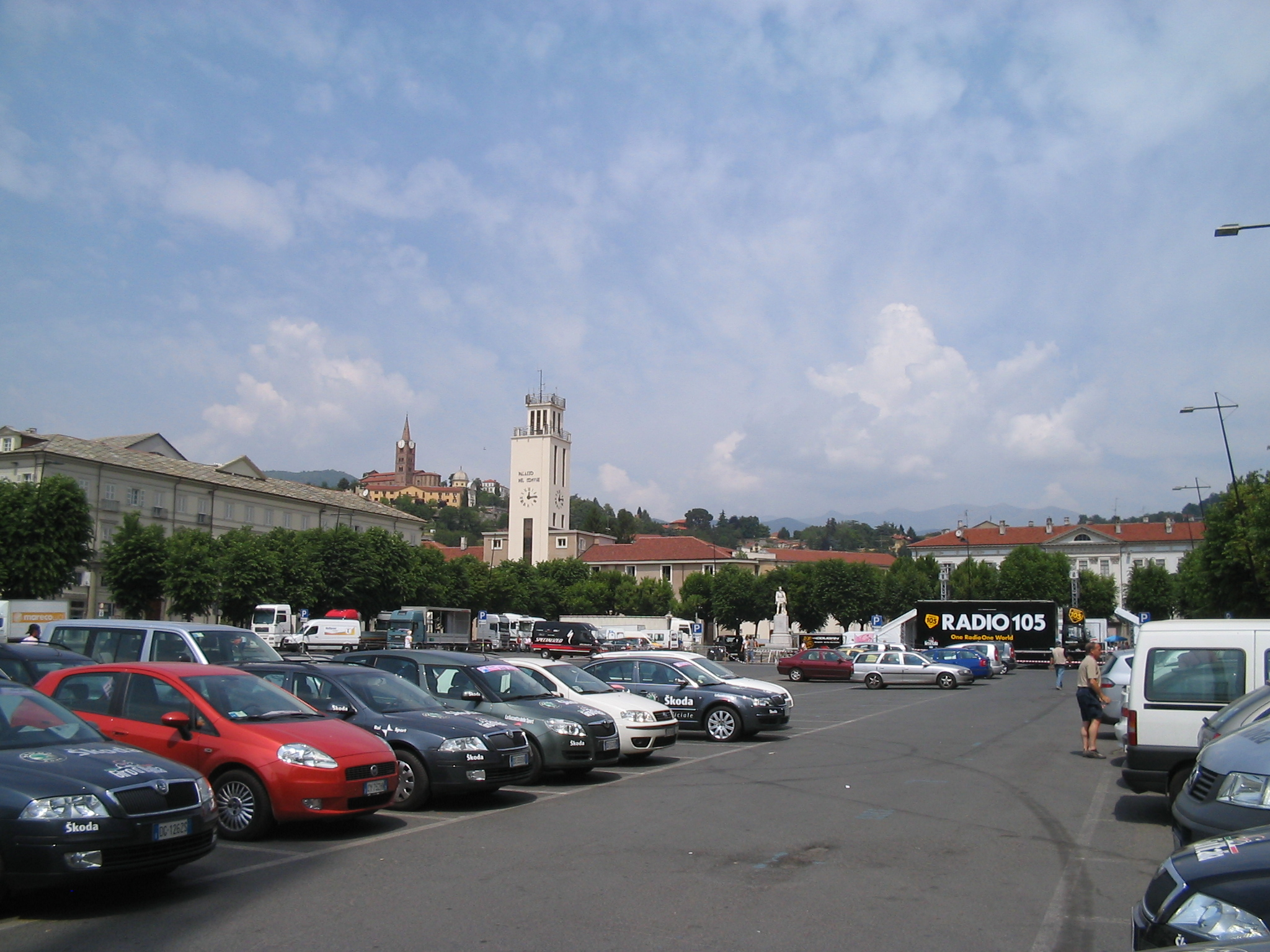 Piazza Vittorio Veneto also know as "Piazza Fontana"